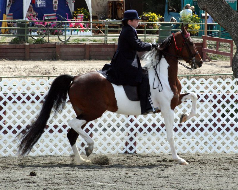 National Show Horse